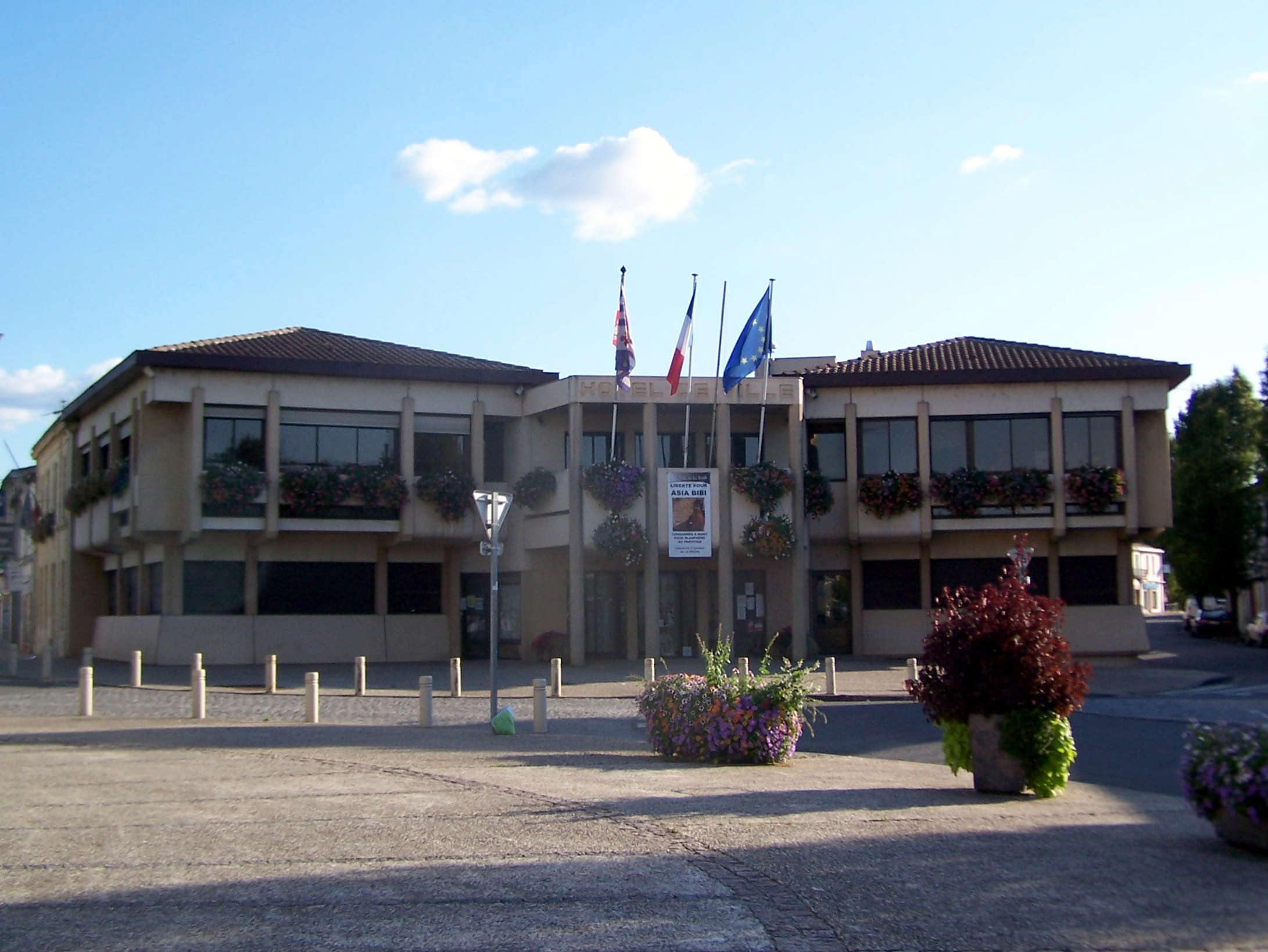 Town hall of La Brède (Gironde, France)